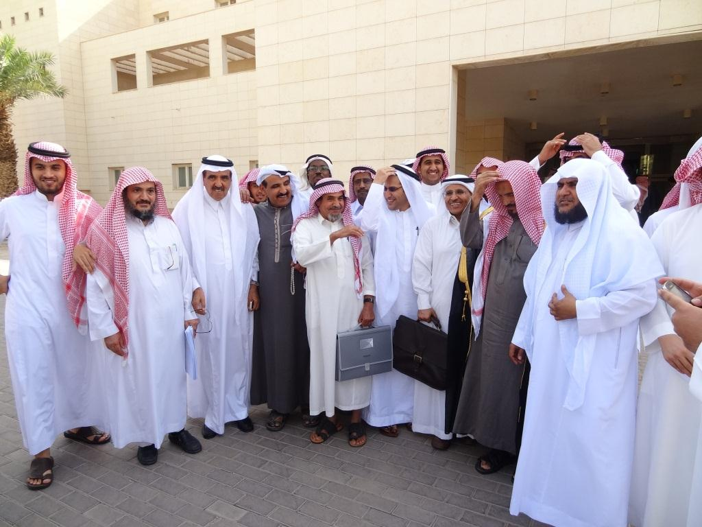 A group photo of 6th trial session attendees.